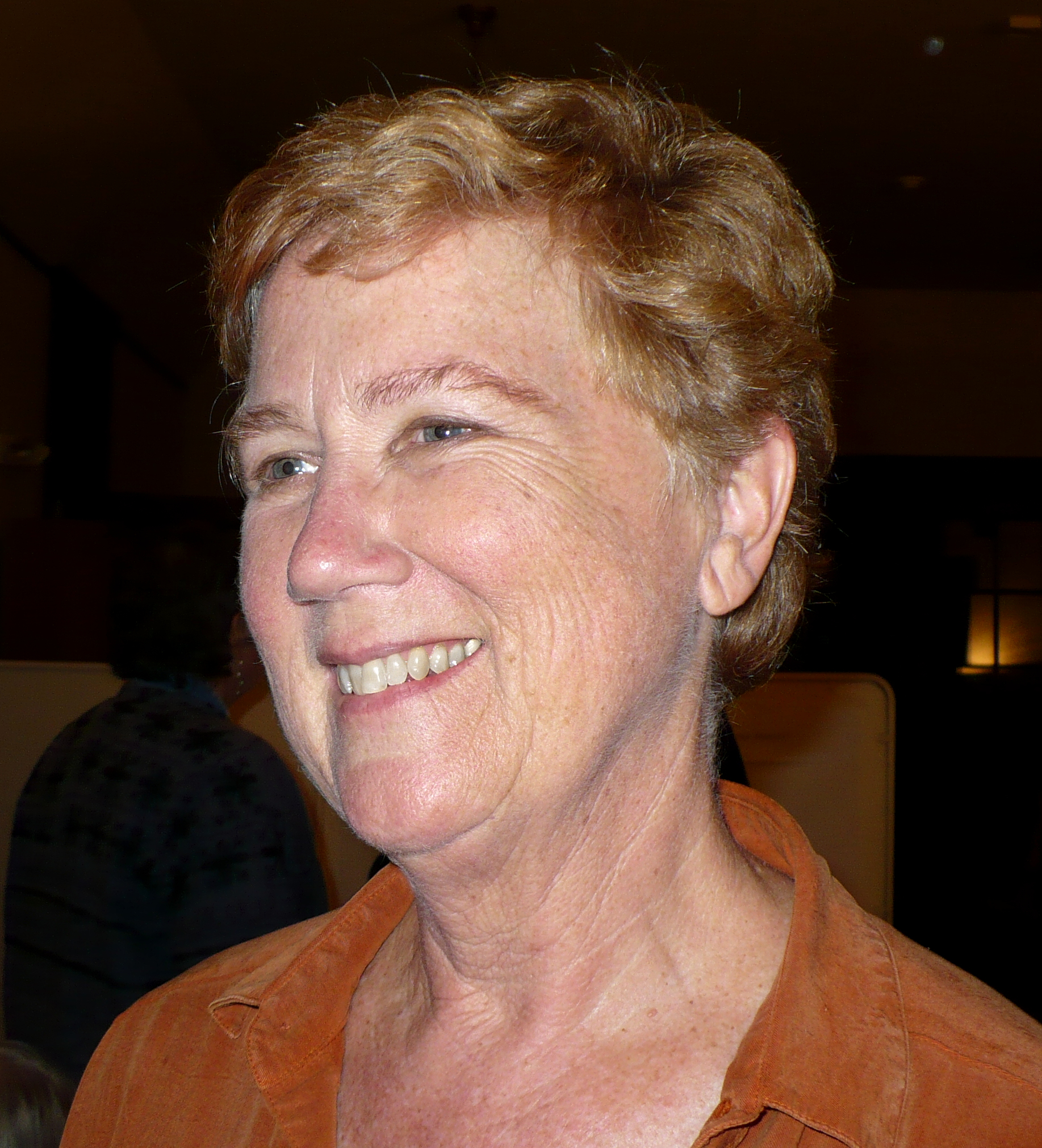 Holly Near, October, 2007